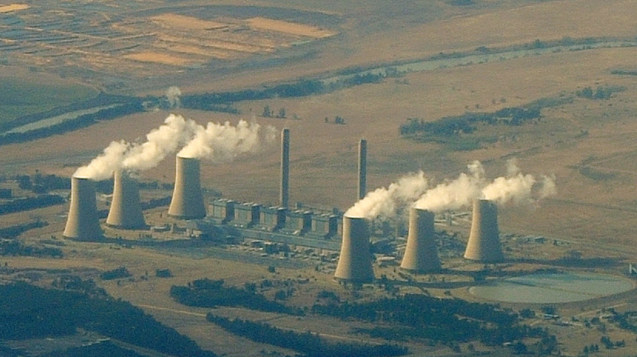 South Africa, Lethabo Powerstation near Vereeniging from overhead Boipatong